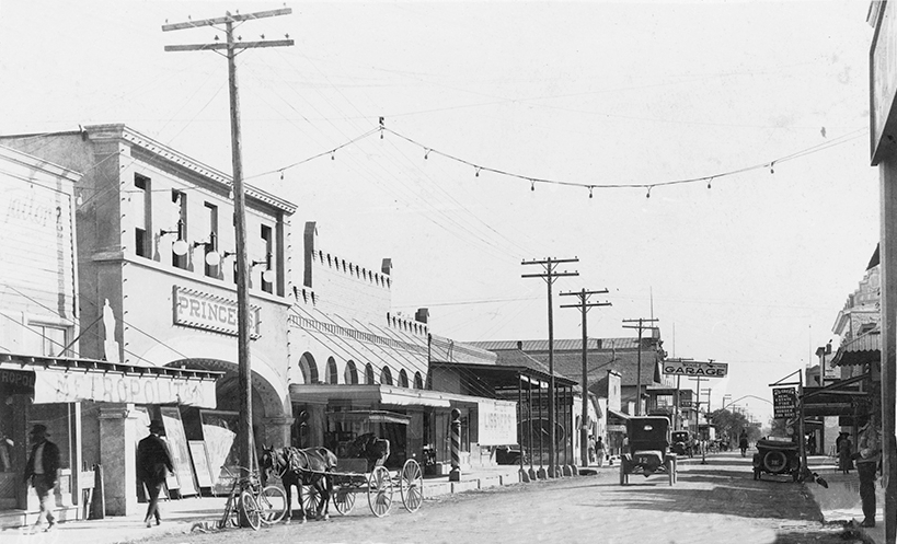 Title: Main Street, Del Rio, Texas Creator: Cooper Date: ca. 1910-1930 Part of: George W. Cook Dallas/Texas image collection Series: Series 3: Photographs Series 3, Subseries 3, Postcards Series 3, Subseries 3d, RPPC, Texas Place: Del Rio, Val Verde County, Texas Description: Del Rio's main street with horses, carriages, automobiles, and bicycles together. Physical Description: 1 photographic print (postcard): gelatin silver; 9 x 14 cm File: a2014_0020_3_3_d_0443_r_delriomain_opt.jpg Rights: Please cite DeGolyer Library, Southern Methodist University when using this file. A high-resolution version of this file may be obtained for a fee by contacting . For more information and to view the image in high resolution, see